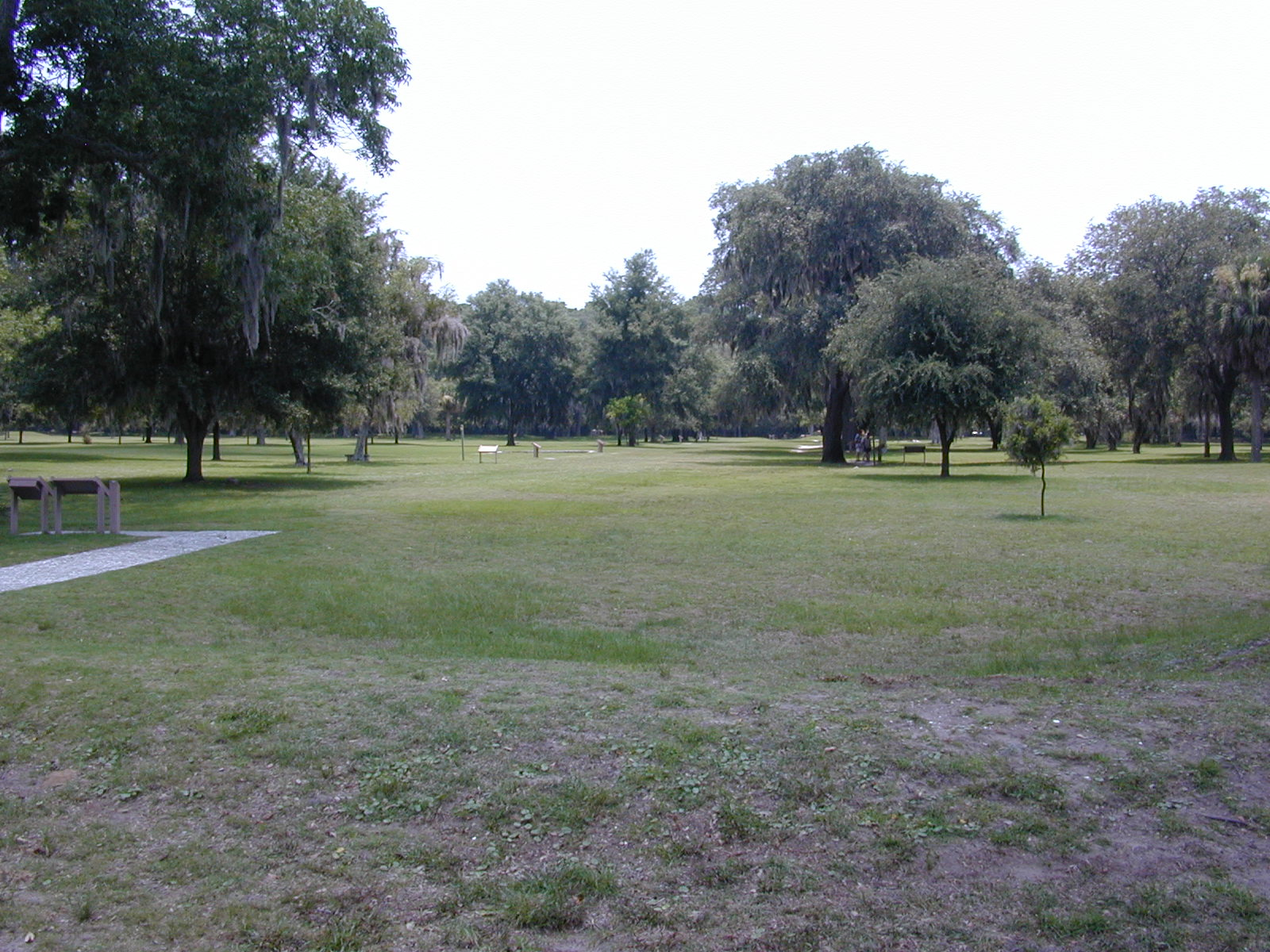 Broad Street in Frederica, Fort Frederica National Monument, seen from the Fort